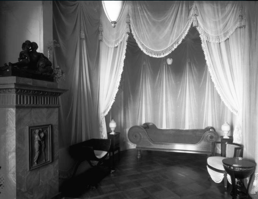 Interior of Stadtschloss Potsdam, Wohnung der Königin Luise, Schlafzimmer der Königin (2)